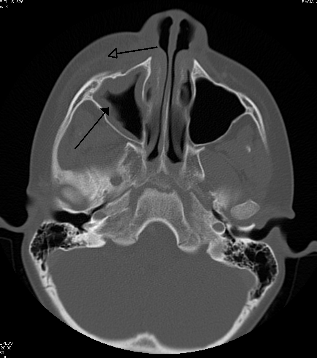 A left maxillary sinusitis (dark arrow) and facial / orbital cellulitis (empty arrow)